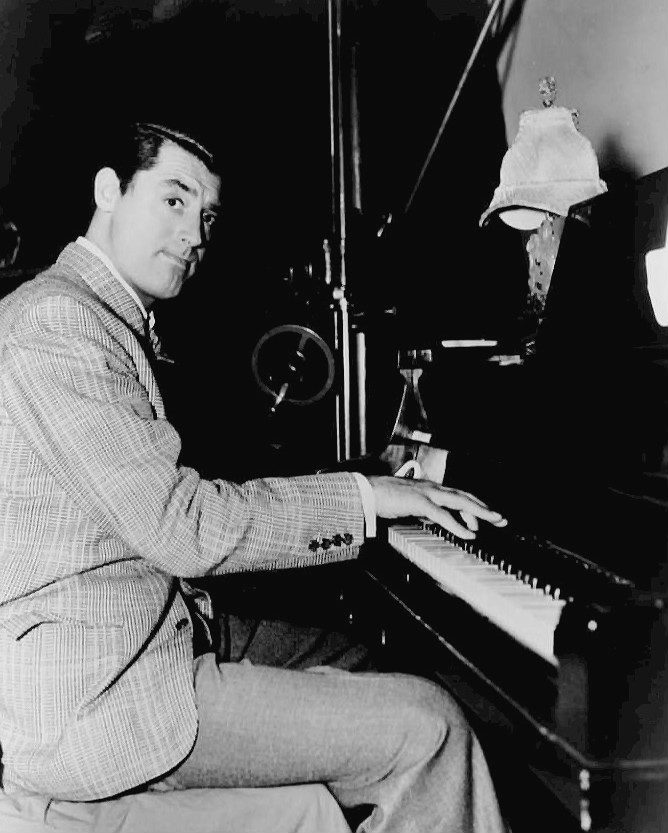 Photo of Cary Grant on the set of The Philadelphia Story from Cine Mundial. The Spanish-language magazine was published in the United States. Note that the uploaded photo is larger and of better quality than the magazine photo. A renewal search was done in publications for the years 1968 and 1969. There were no listings for the title "Cine Mundial". There's no evidence of continuing copyright on the magazine.